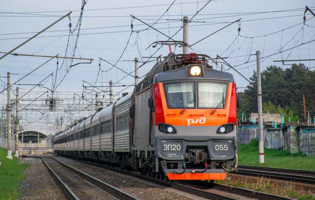 Electric locomotive EP20-055 with passenger train № 030 «Premium» Novorossiysk — Moscow. Otdykh railway platform, Ryazan direction of Moscow railway, Moscow region, Russia